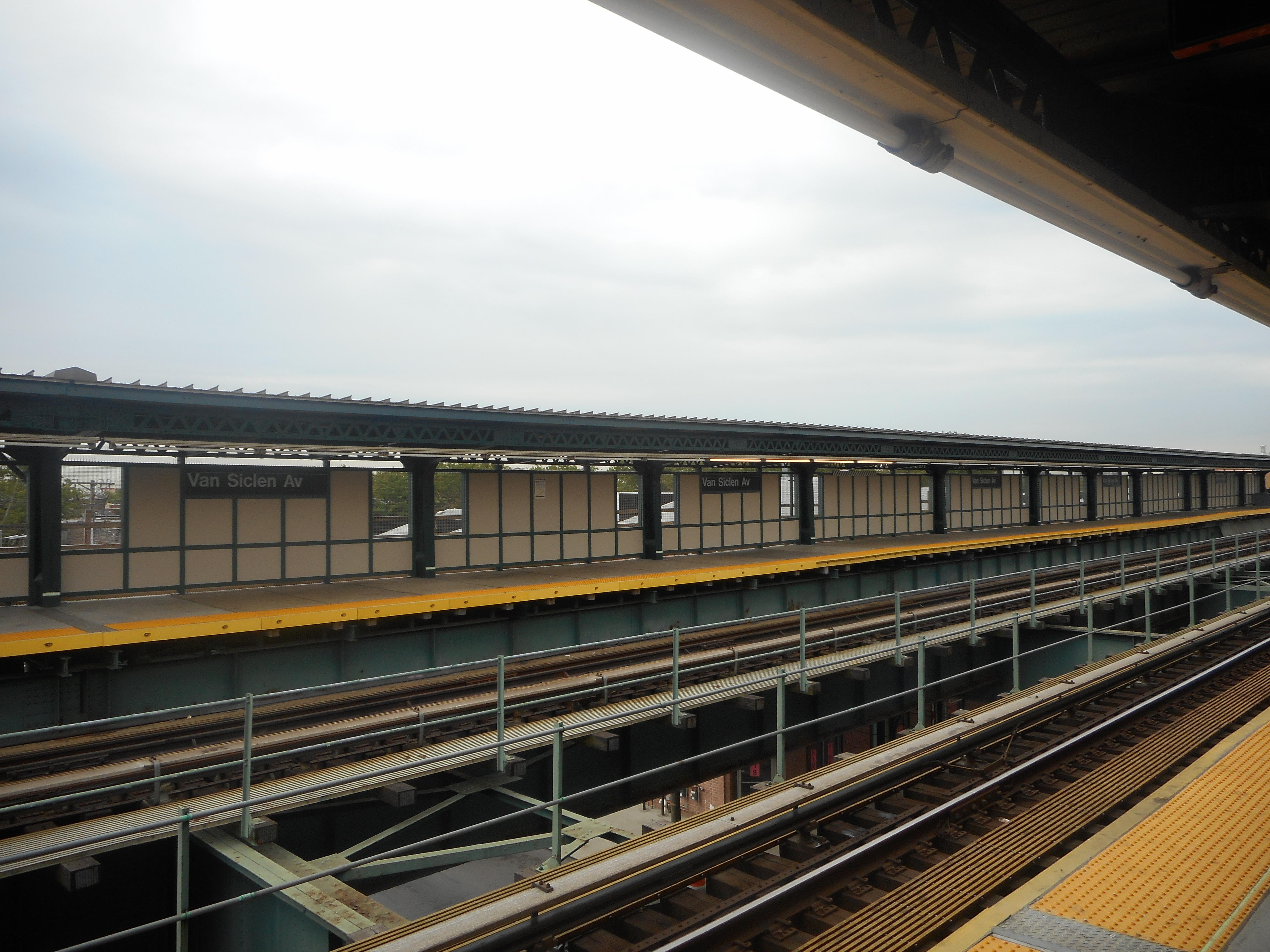 Looking southwest at the New Lots Avenue-bound platform, from the Utica Avenue and Lenox Terminal-bound platform of the Van Siclen Avenue Elevated Station on the IRT New Lots Line in theNew Lots section of Brooklyn, New York City. After some careful research, it would appear that the unused center median between the tracks is exposing the intersection with Livonia and Miller Avenues.